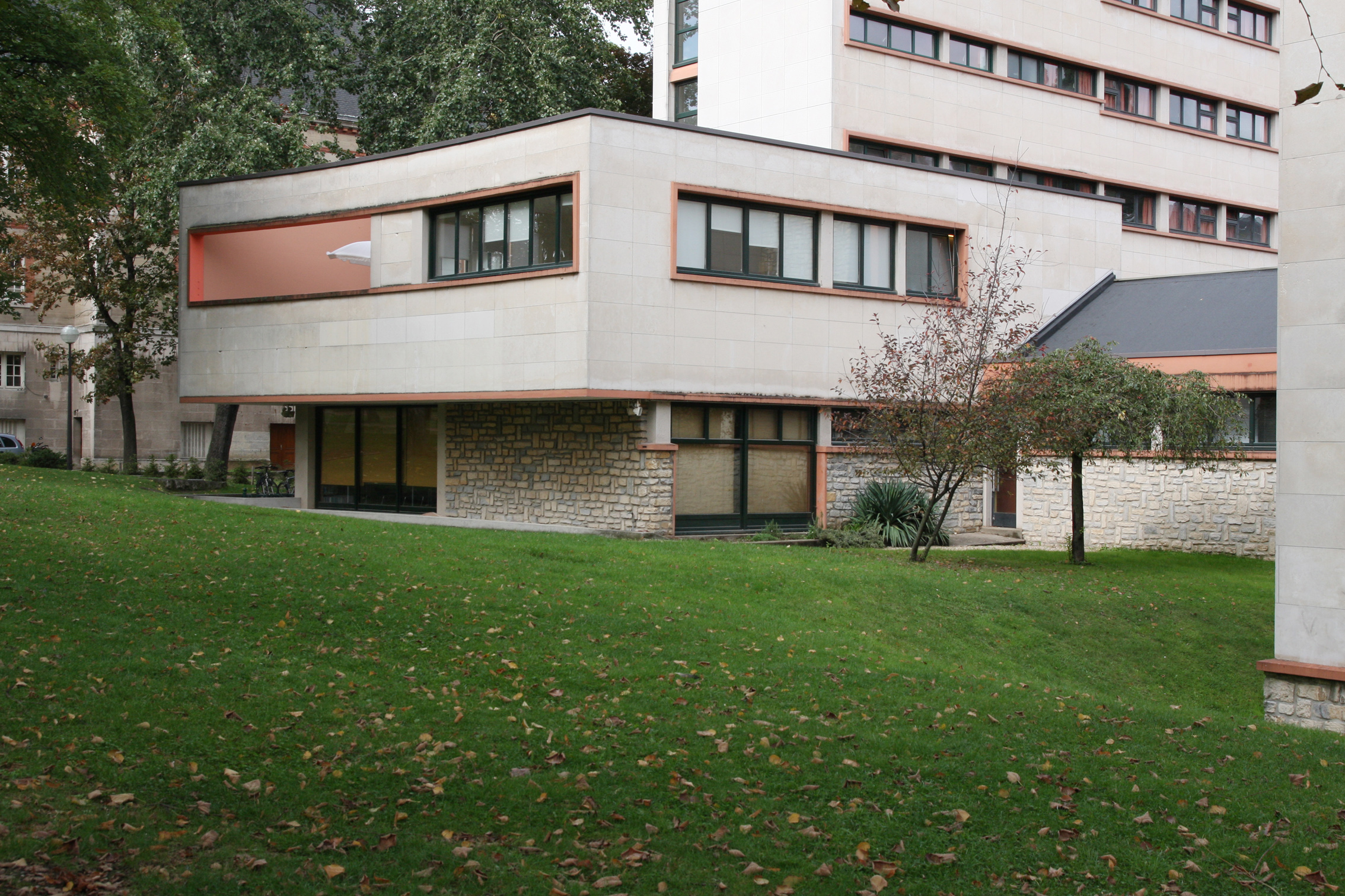 Mexican House at the Cité Internationale Universitaire in Paris